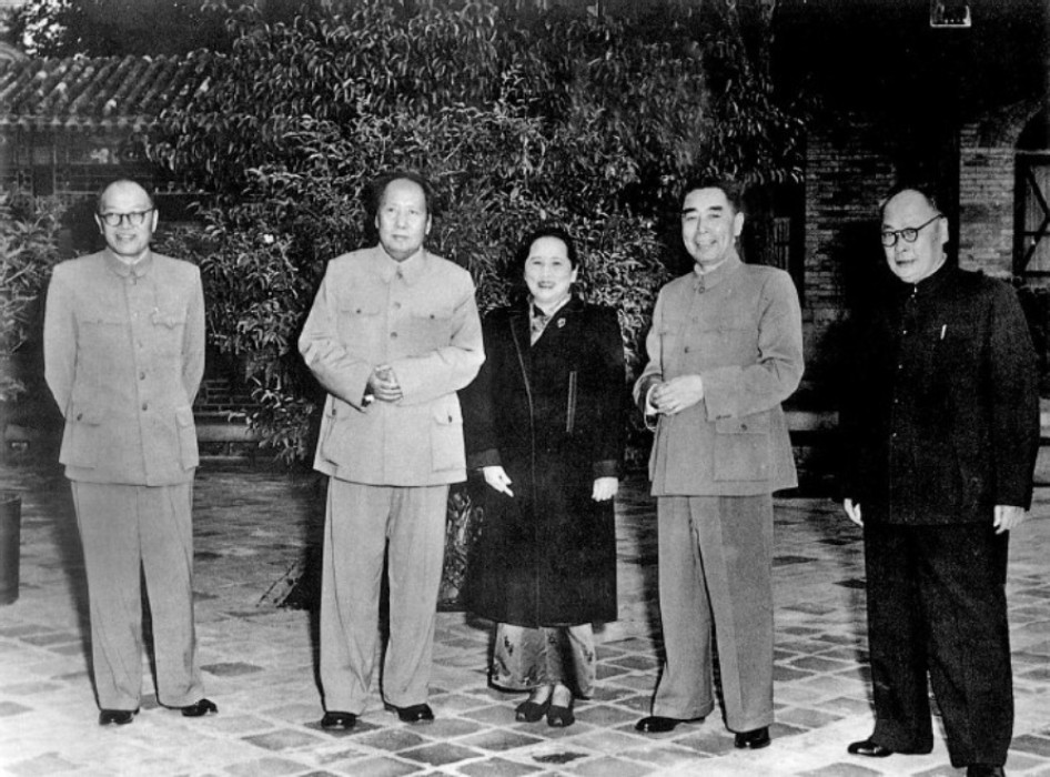 (from left to right)Zhang Wentian, Mao Zedong, Soong Ching-ling, Zhou Enlai, Chen Yi were at Zhongnanhai